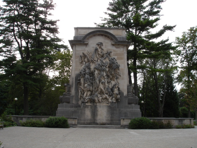 I took this photo myself in 2005